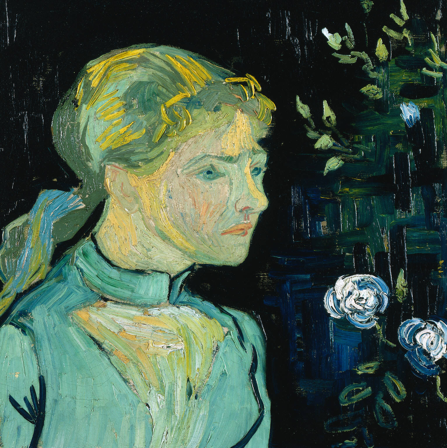 In May 1890 Van Gogh left southern France to live in Auvers, a small town just north of Paris, where he rented a room at the inn of Arthur Ravoux. A month after his arrival he painted three portraits of Ravoux's sixteen-year-old daughter, Adeline. Although known for his landscapes, Van Gogh's greatest ambition was to paint portraits. "I should like to paint portraits," he wrote to his sister, "which a hundred years from now will seem to people of those days like apparitions. Thus I do not attempt to achieve this through photographic resemblance, but through our impassioned aspects, using our science and our modern taste for color as a means of expression and of exaltation of color." This painting presents Adeline Ravoux not as an individual, but as a symbol of the eternal woman, set against the infinite blue night like a radiant star.[1] ↑ The Cleveland Museum of Art